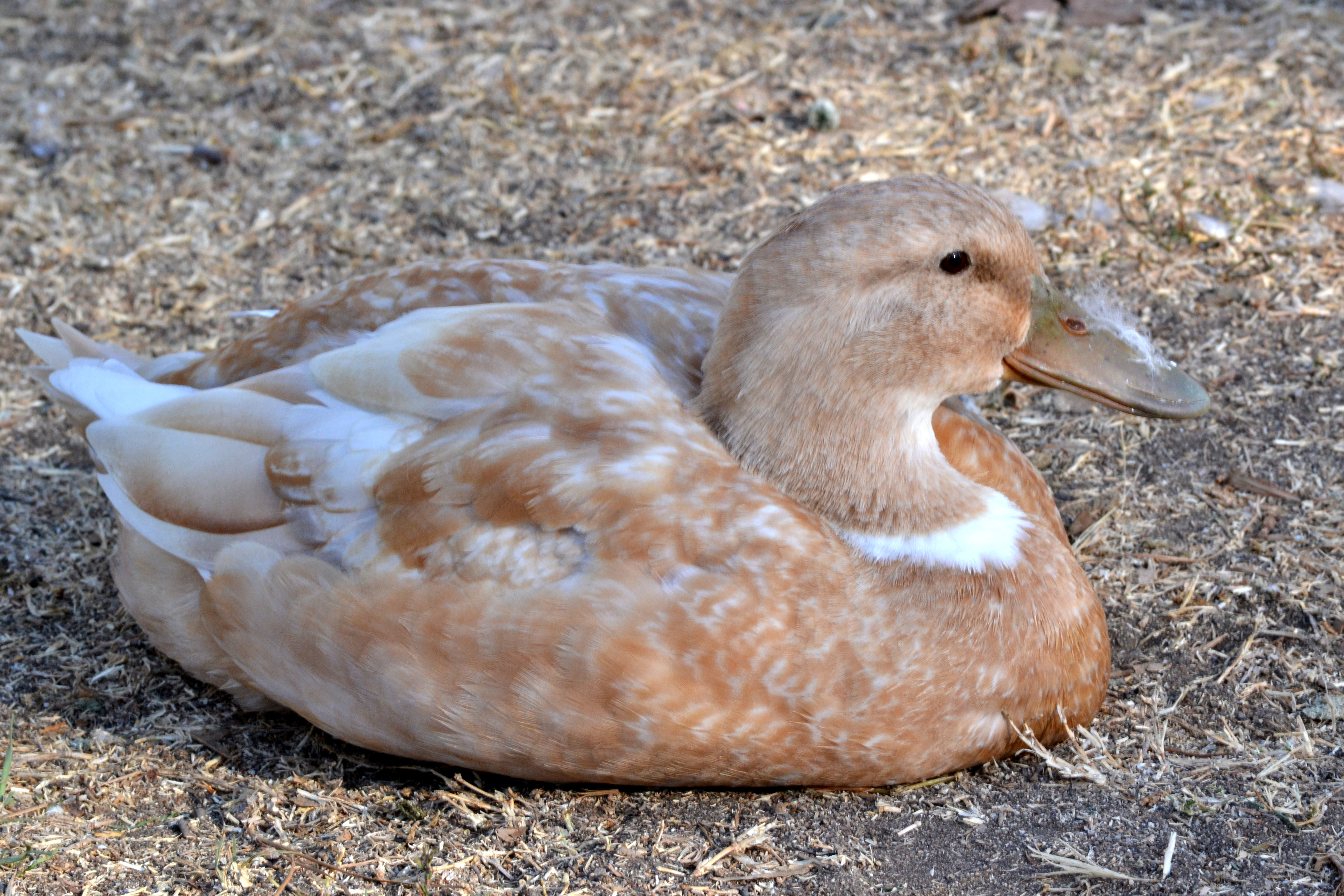 An Orpington Duck (female) at the Kenneth Hahn State Recreation Area in the Baldwin Hills of Los Angeles, CA.